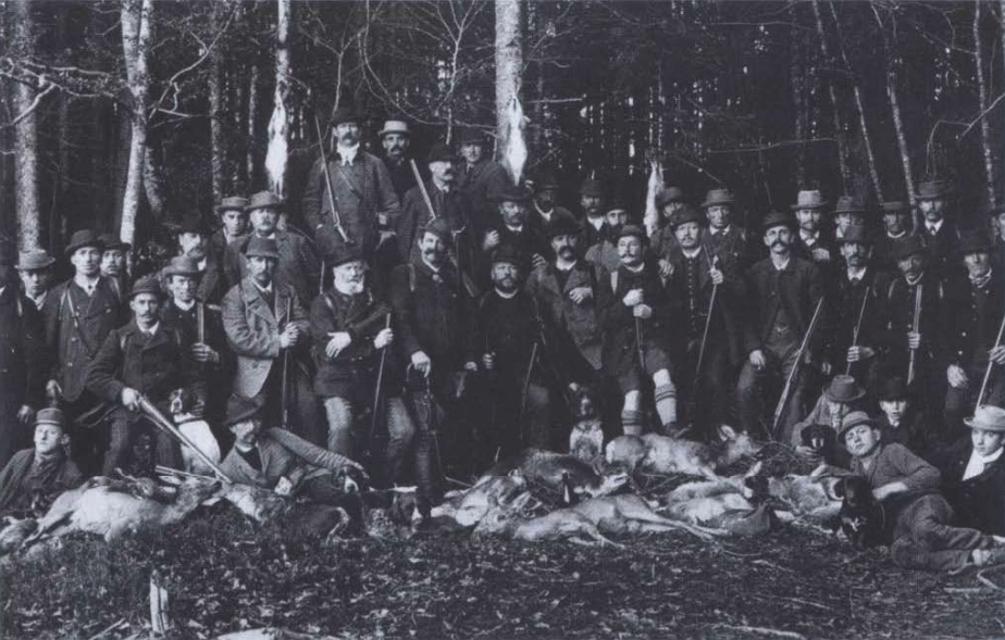 Bavarian peasant-hunters after a driven hunt on roe deer, hare and fox, Simbach am Inn, ca. 1890